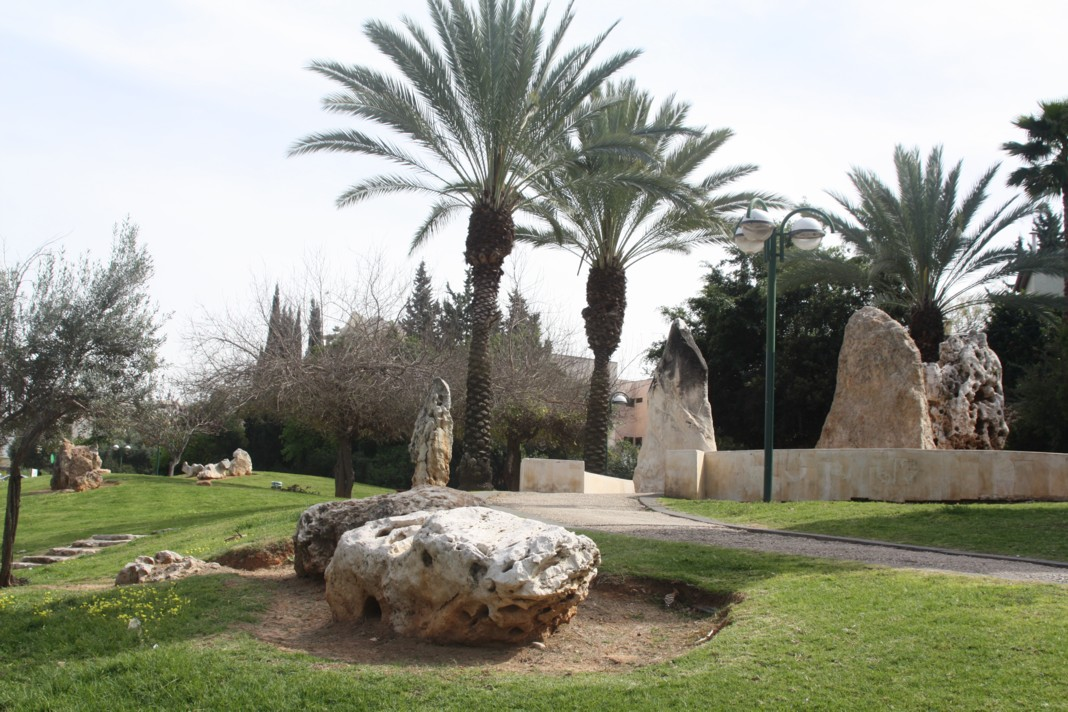 Rock garden, Ramat Hasharon